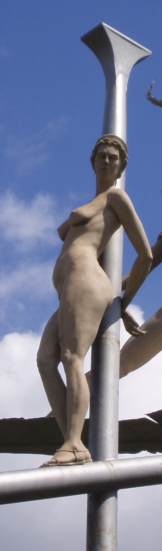 Peter Lenk, Hölderlin im Kreisverkehr, Detail